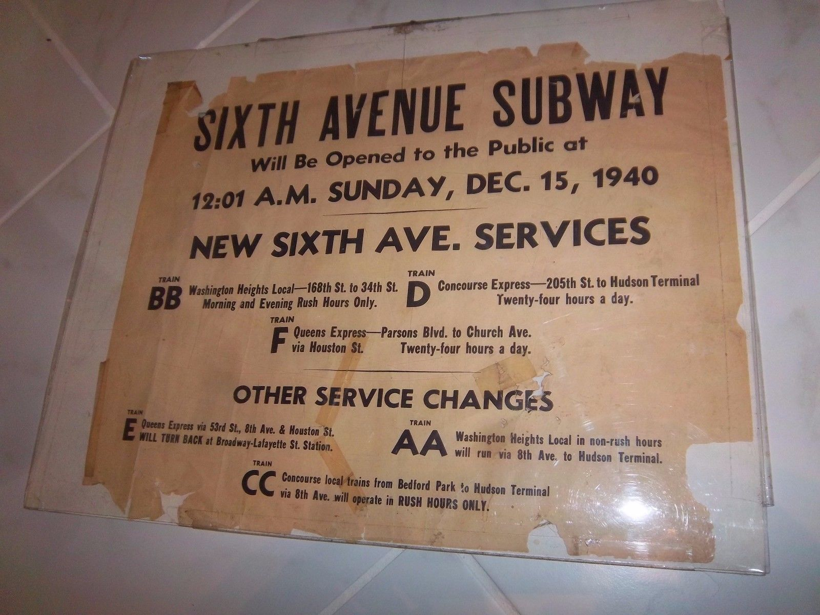 This is a poster announcing the opening of the new Sixth Avenue Subway of the Independent Subway System. The line opened on December 15, 1940, and service were rerouted.